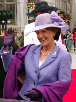 Her Royal Highness Princess Margriet of the Netherlands, Orange-Nassau and Lippe-Besterfield in Ottawa during the Ottawa Tulipfest in May 2002.